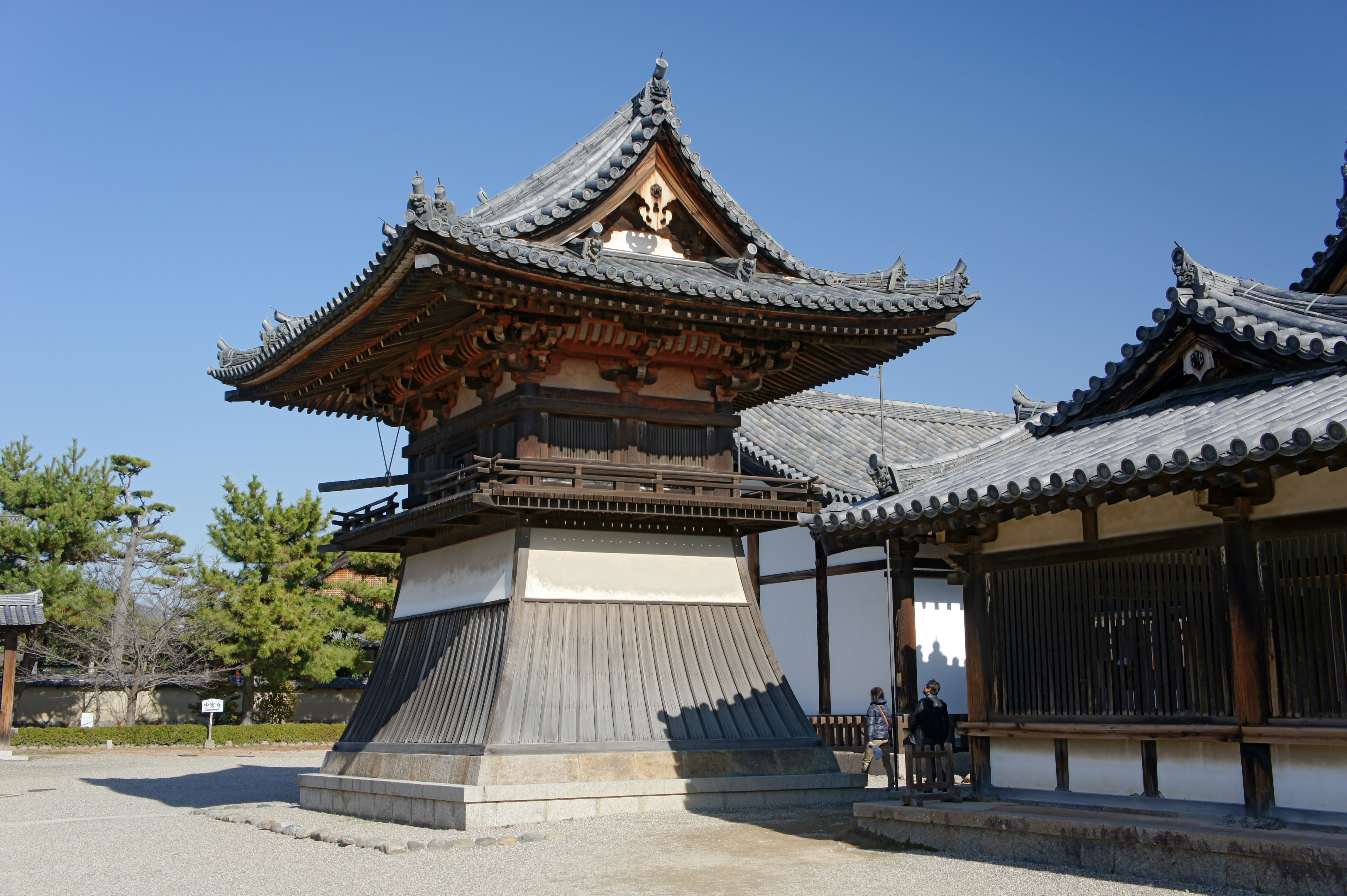 Belfry of East Precinct of Hōryū-ji is a Japan's National Treasure. Hōryū-ji is a Buddhist temple in Ikaruga, Nara prefecture, Japan. It was registered as part of the UNESCO World Heritage Site "Buddhist Monuments in the Hōryū-ji Area".